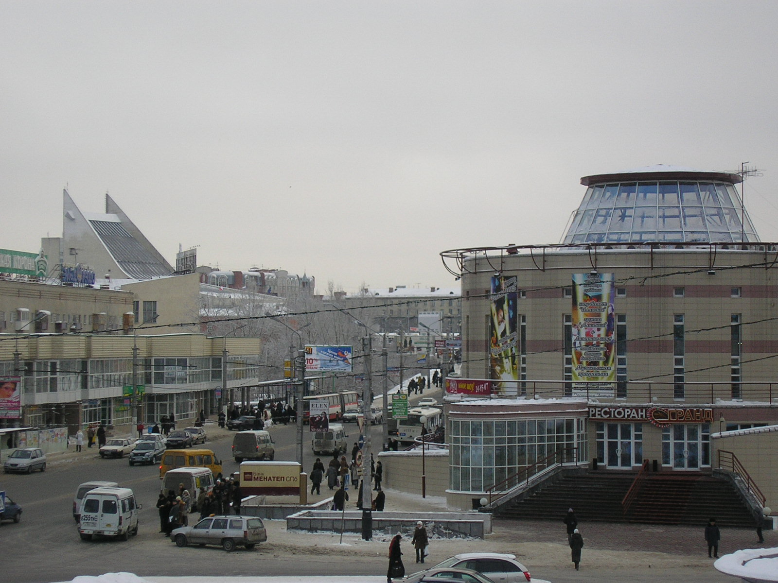 Omsk